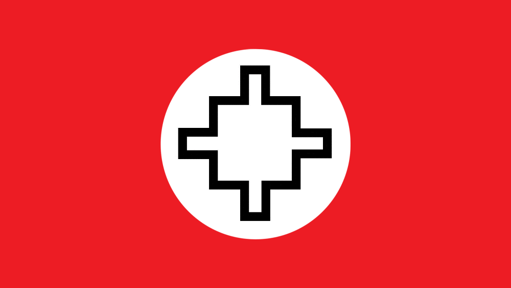 Flag of the ethnocacerist movement